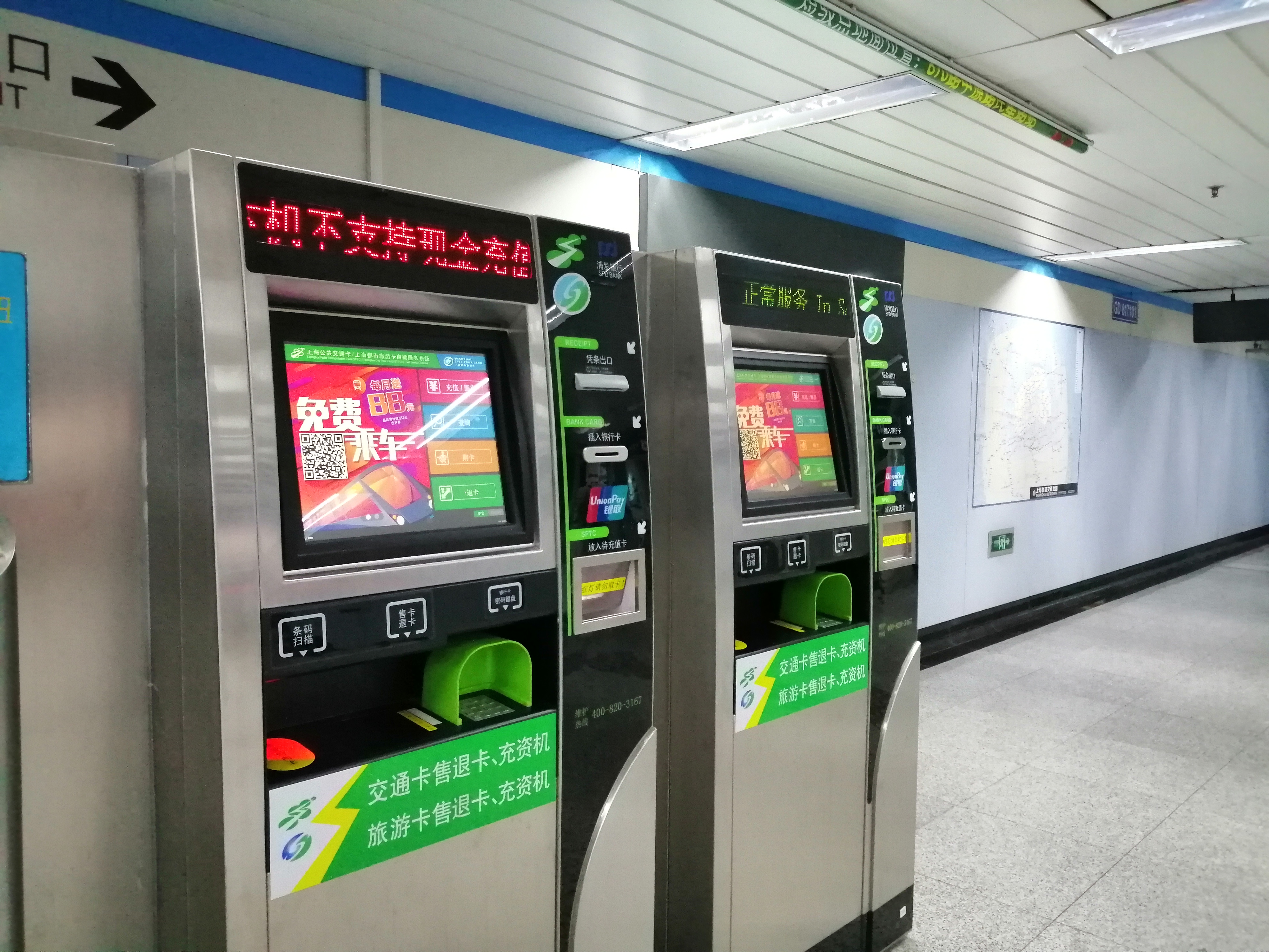 Shanghai Public Transport Card TVM at Nenjiang Road Station 中文（中国大陆）: 嫩江路站内的上海公共交通卡自助服务机